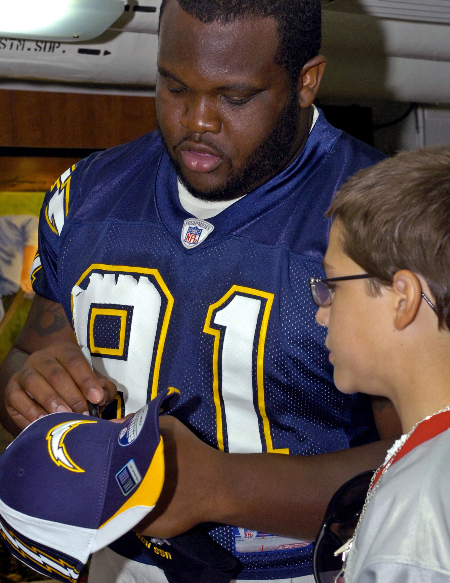 San Diego Chargers Brandon McKinney signs an autograph for the son of a US Navy (USN) Sailor during his team's visit aboard USN Nimitz Class Aircraft Carrier USS RONALD REAGAN (CVN 76). The Chargers held practice on the flight deck of the Navy's newest aircraft carrier in preparation for their first pre-season game against the Green Bay Packers. U.S. Navy official photo by Mass Communication Specialist 3rd Class (AW) Christopher D. Blachly (RELEASED)